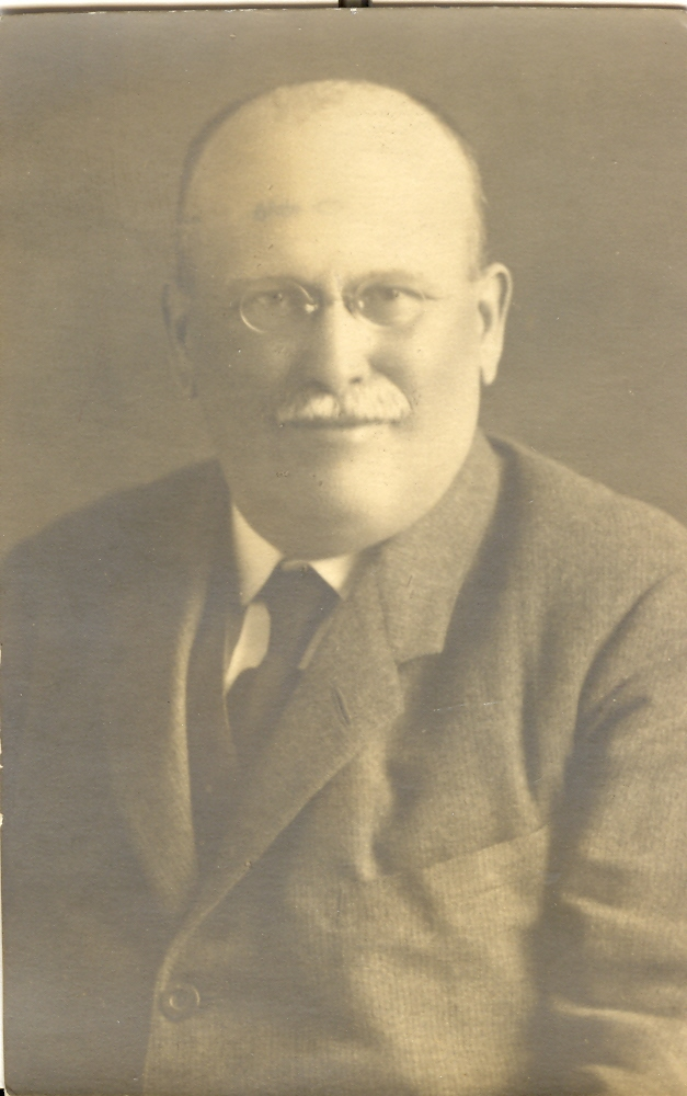 Photograph of Dimitrije Mita Klicin (1869-1943), Serbian teacher, publicist and member of parliament. Srpski (latinica): Fotografija Dimitrija Mite Klicina (1869-1943), učitelja, publiciste i narodnog poslanika.